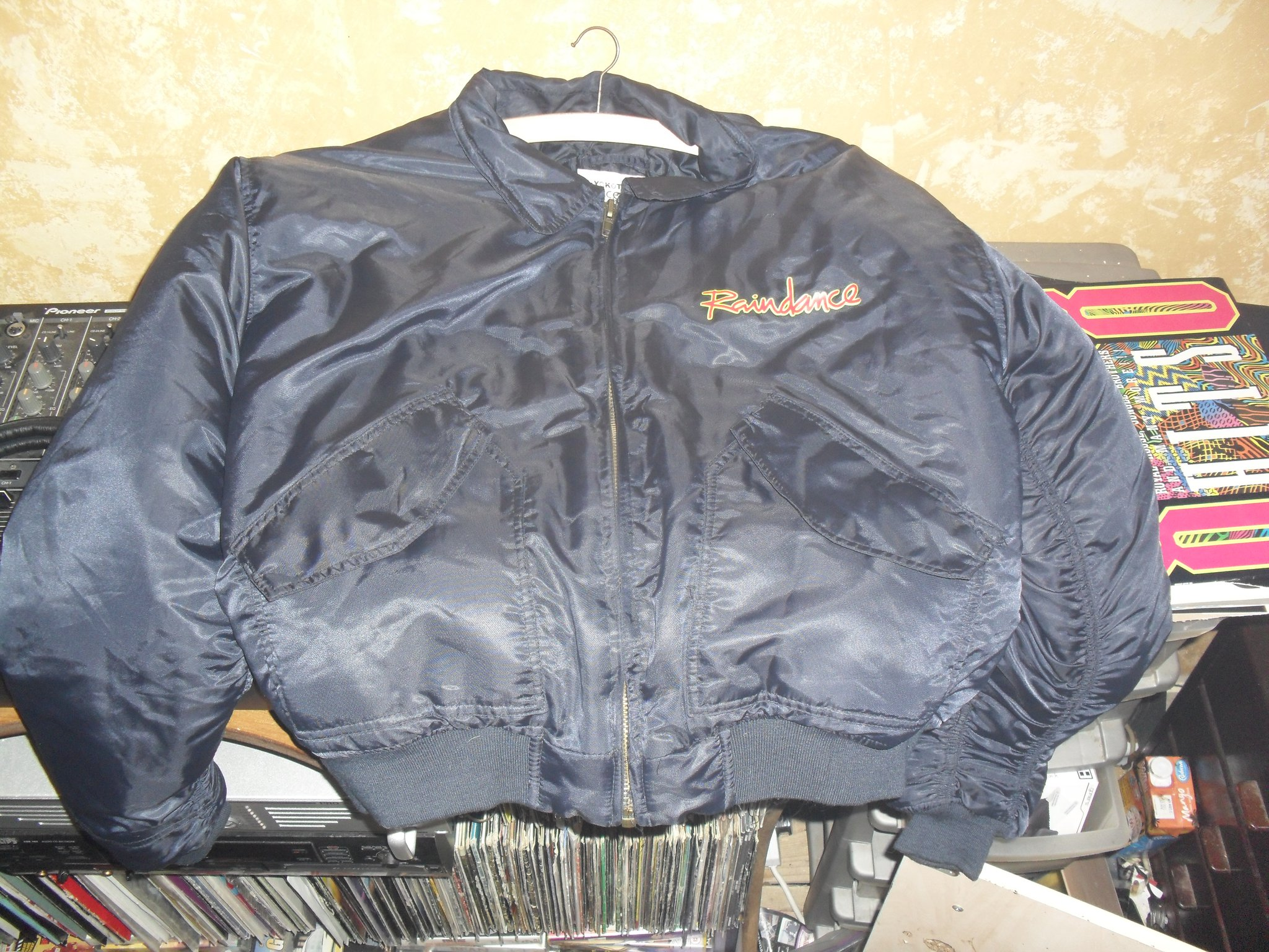 A Raindance MA2 jacket